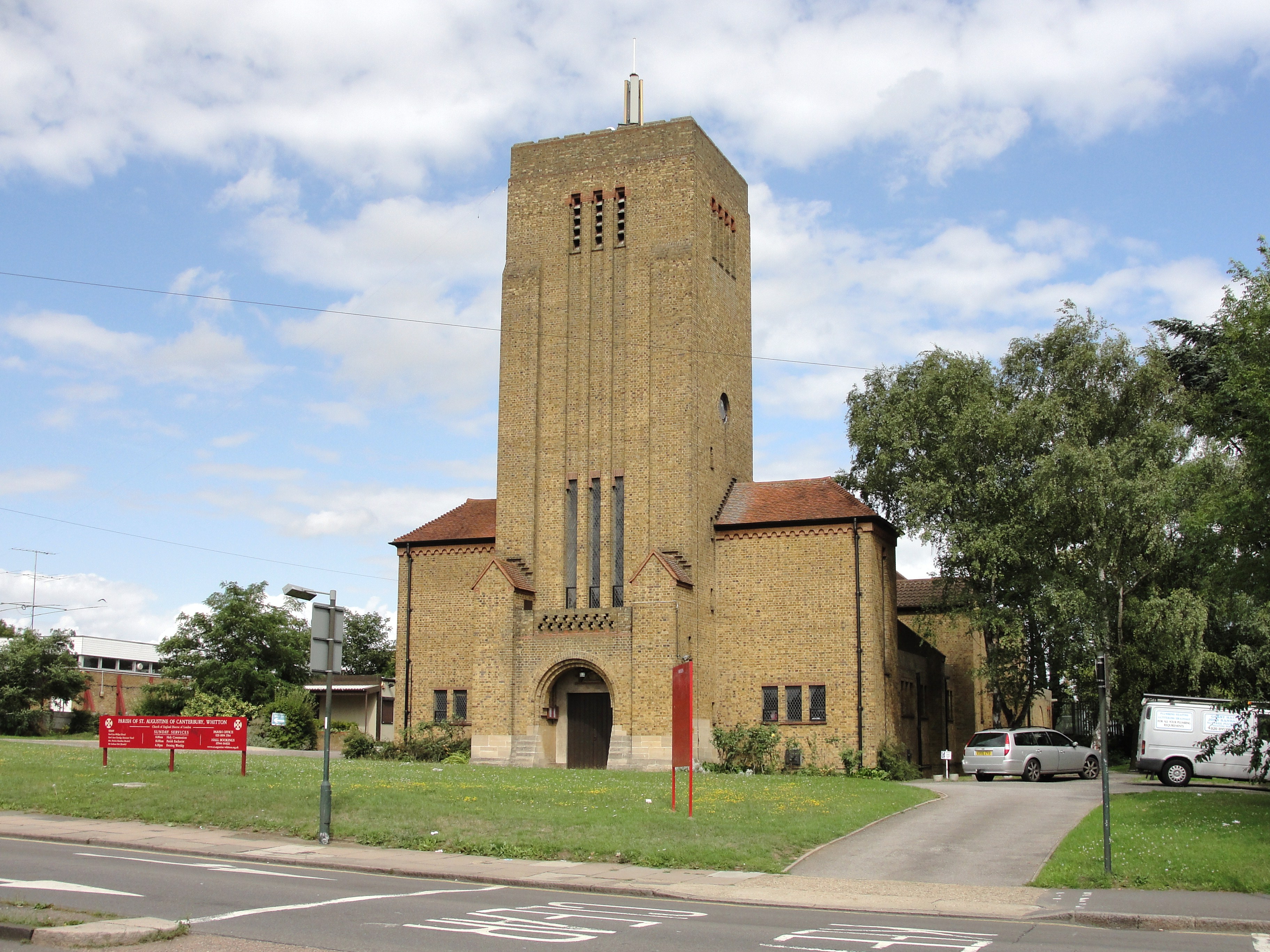 Parish church of St Augustine of Canterbury, Hospital Bridge Road, Whitton, Middlesex, seen from the west